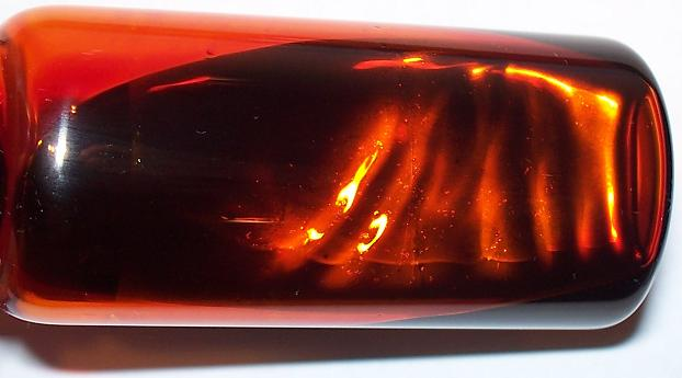 Bromine (10ml)